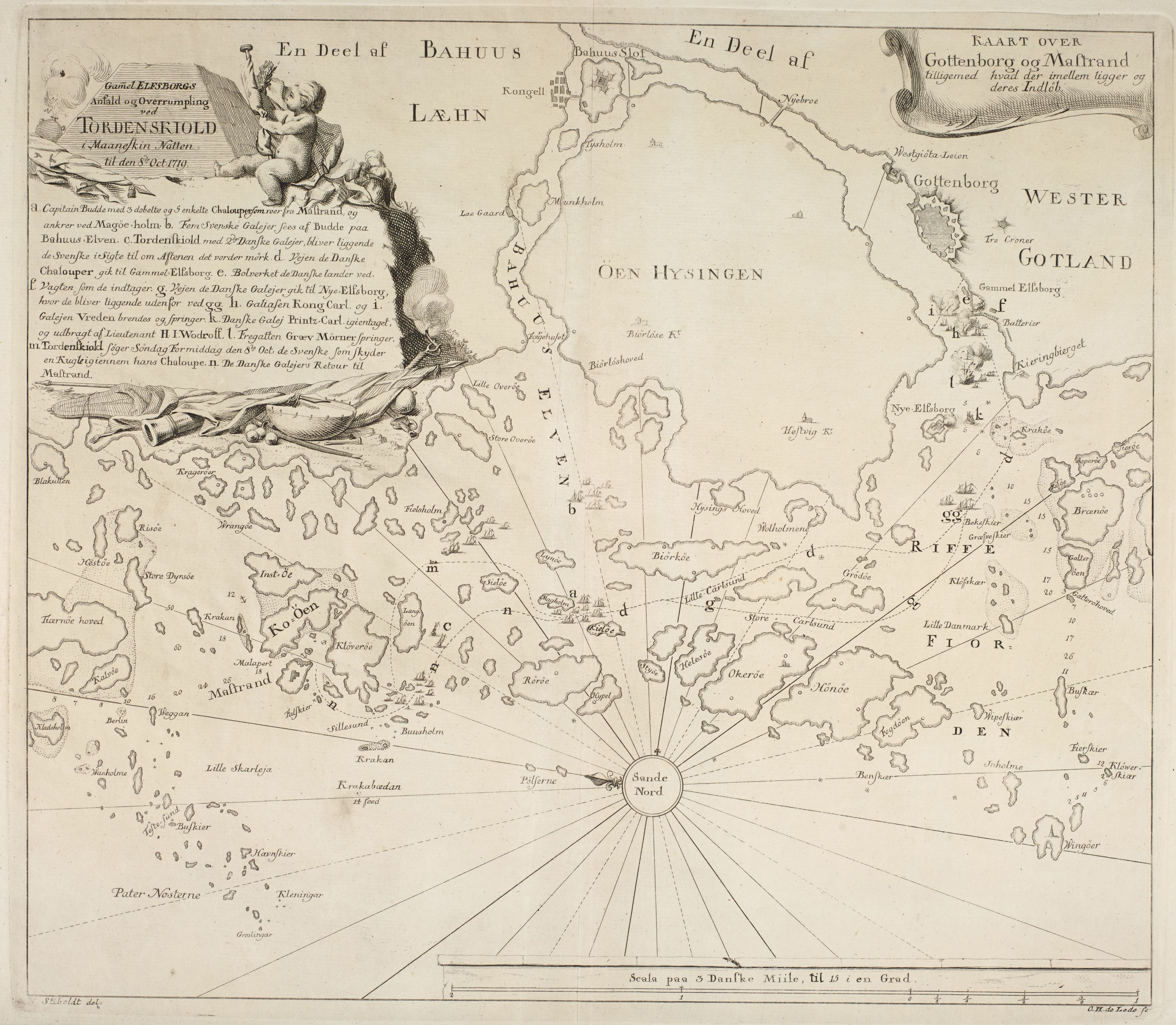 Map over the coast between Marstrand and Gothenburg, Sweden, showing the events during the danish attack at Nya Varvet naval shipyard, on 8th October 1719.